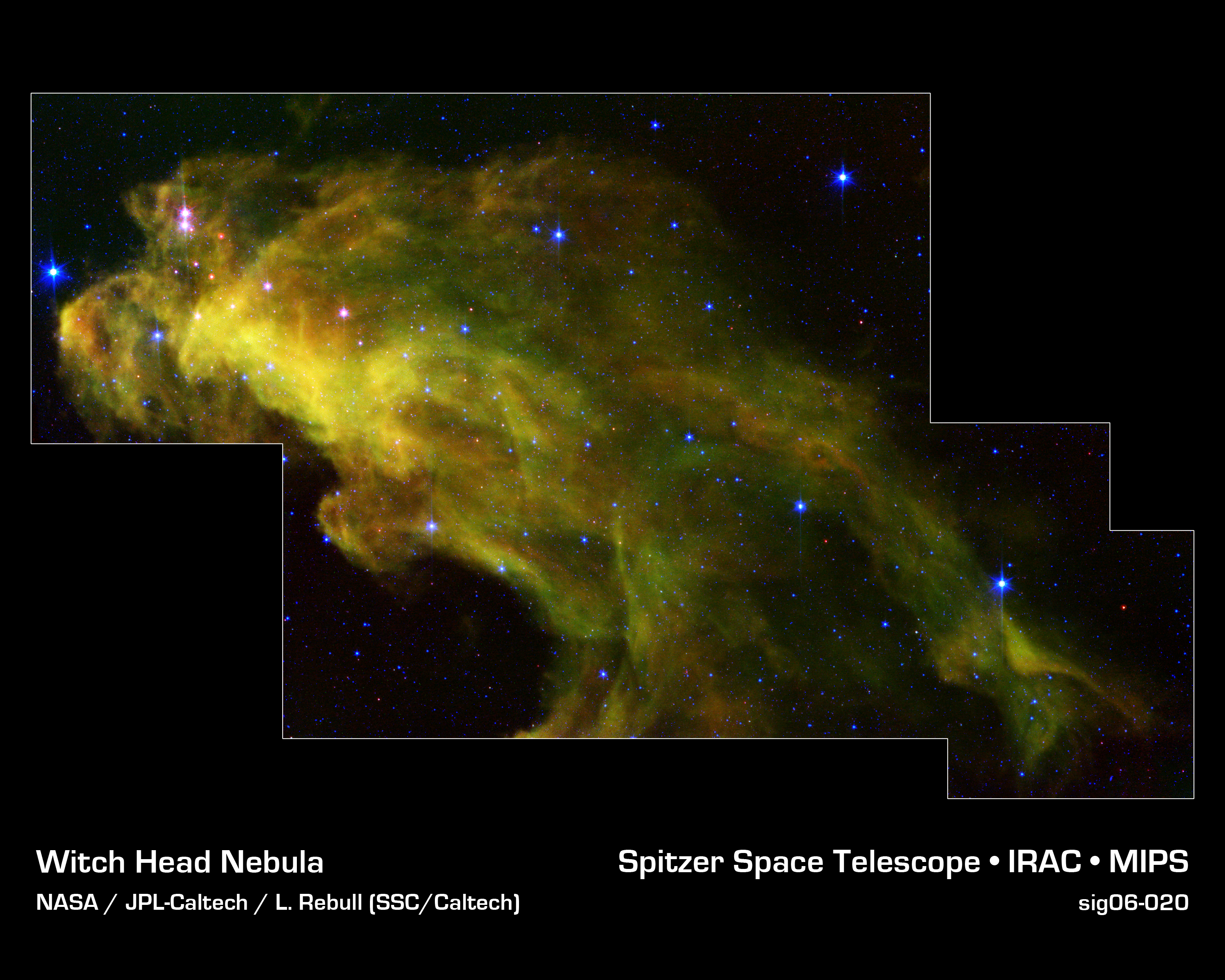 Eight hundred light-years away in the Orion constellation, a gigantic murky cloud called the "Witch Head" nebula is brewing baby stars. The stellar infants are revealed as pink dots in this image from NASA's Spitzer Space Telescope. Wisps of green in the cloud are carbon-rich molecules called polycyclic aromatic hydrocarbons, which are found on barbecue grills and in automobile exhaust on Earth. This image was obtained as part of the Spitzer Space Telescope Research Program for Teachers and Students, involving high school teachers and their students from across the United States. The infrared image is a three-color composite, in which light with a wavelength of 4.5 microns is blue, 8.0-micron light is green, and 24-micron light is red.